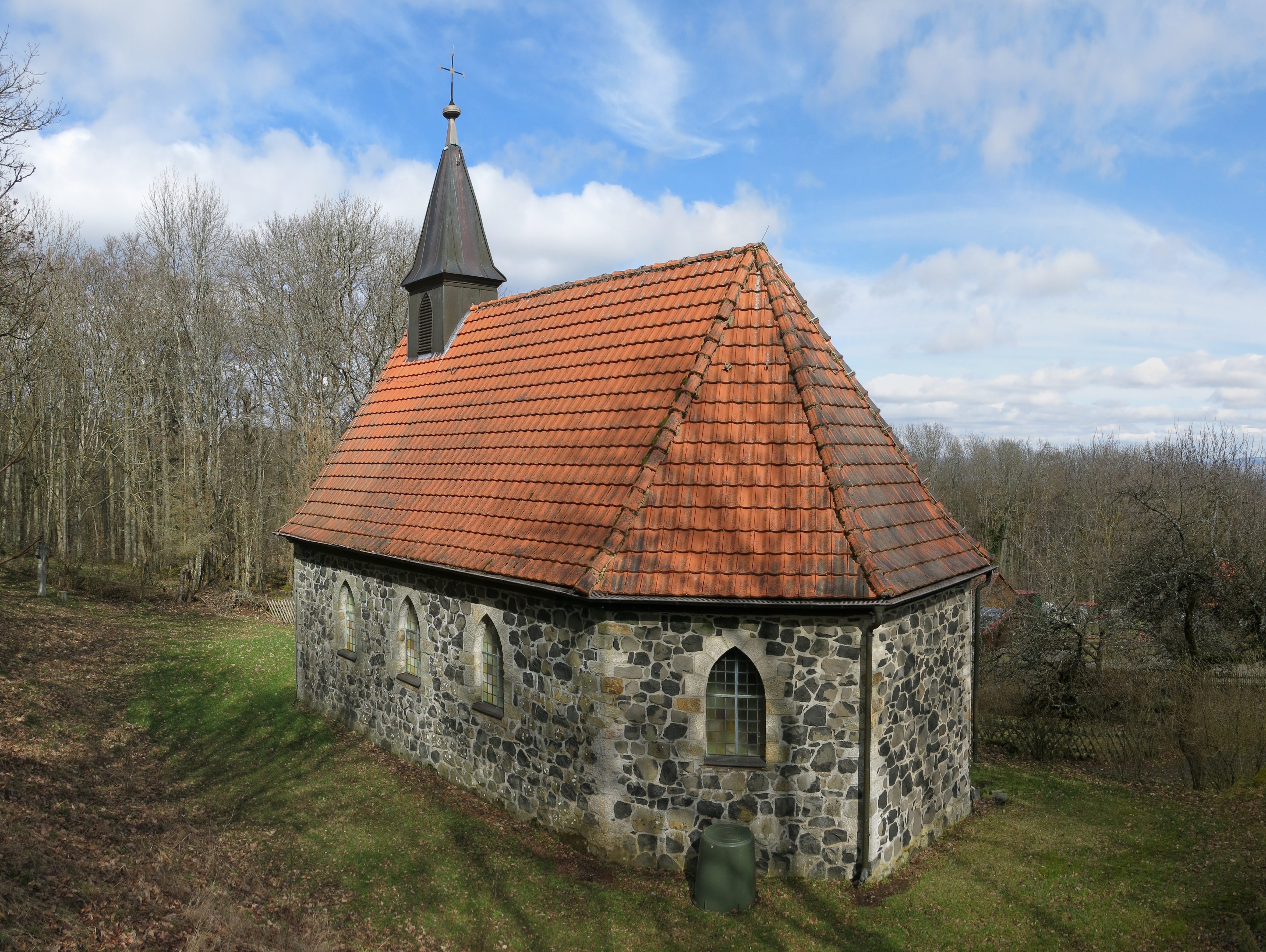 Chapel in Hillenberg near Hausen in the Rhön Mountains.